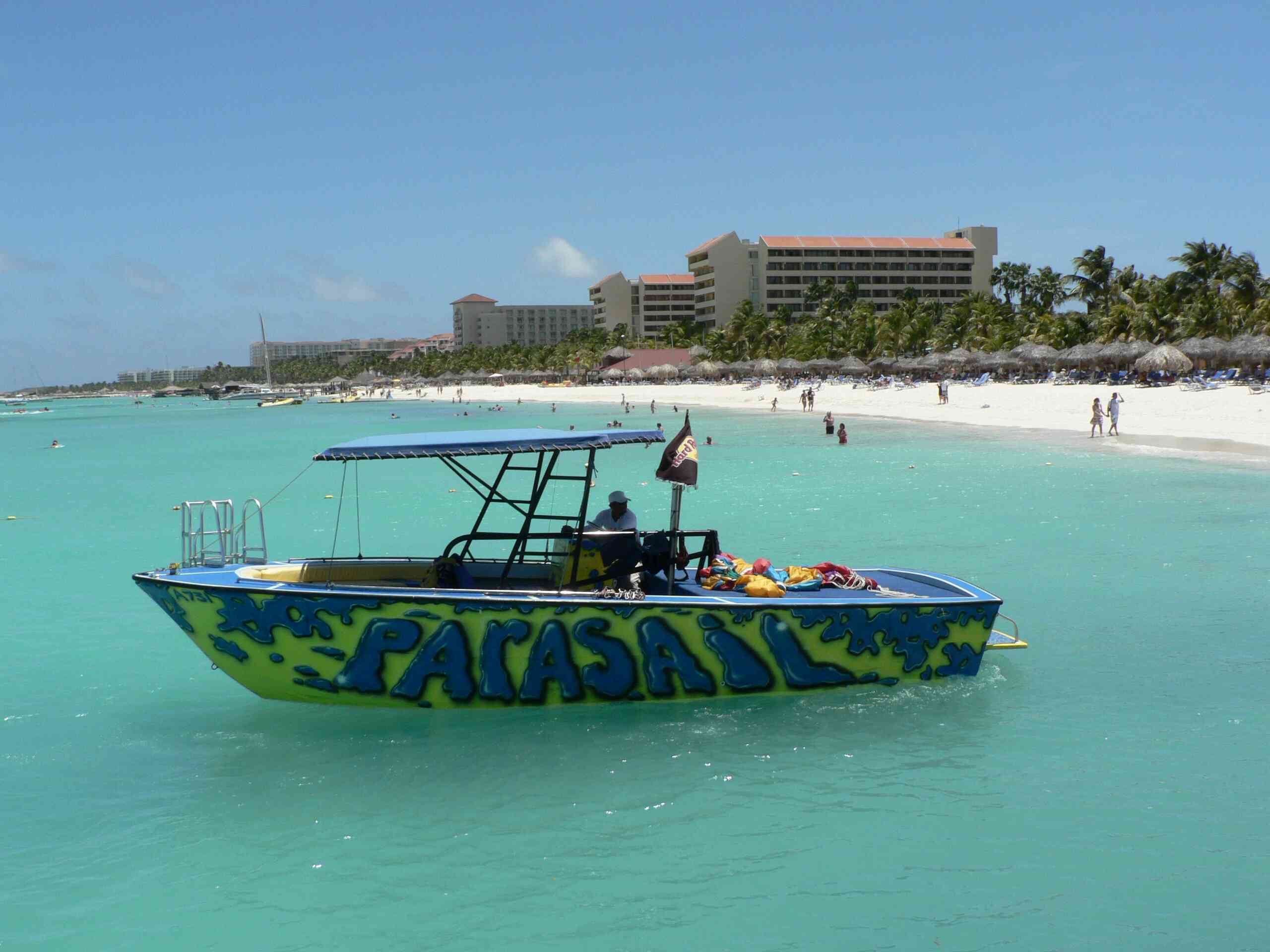 Many of Aruba's largest resorts face Palm Beach on the northwest side of the island.